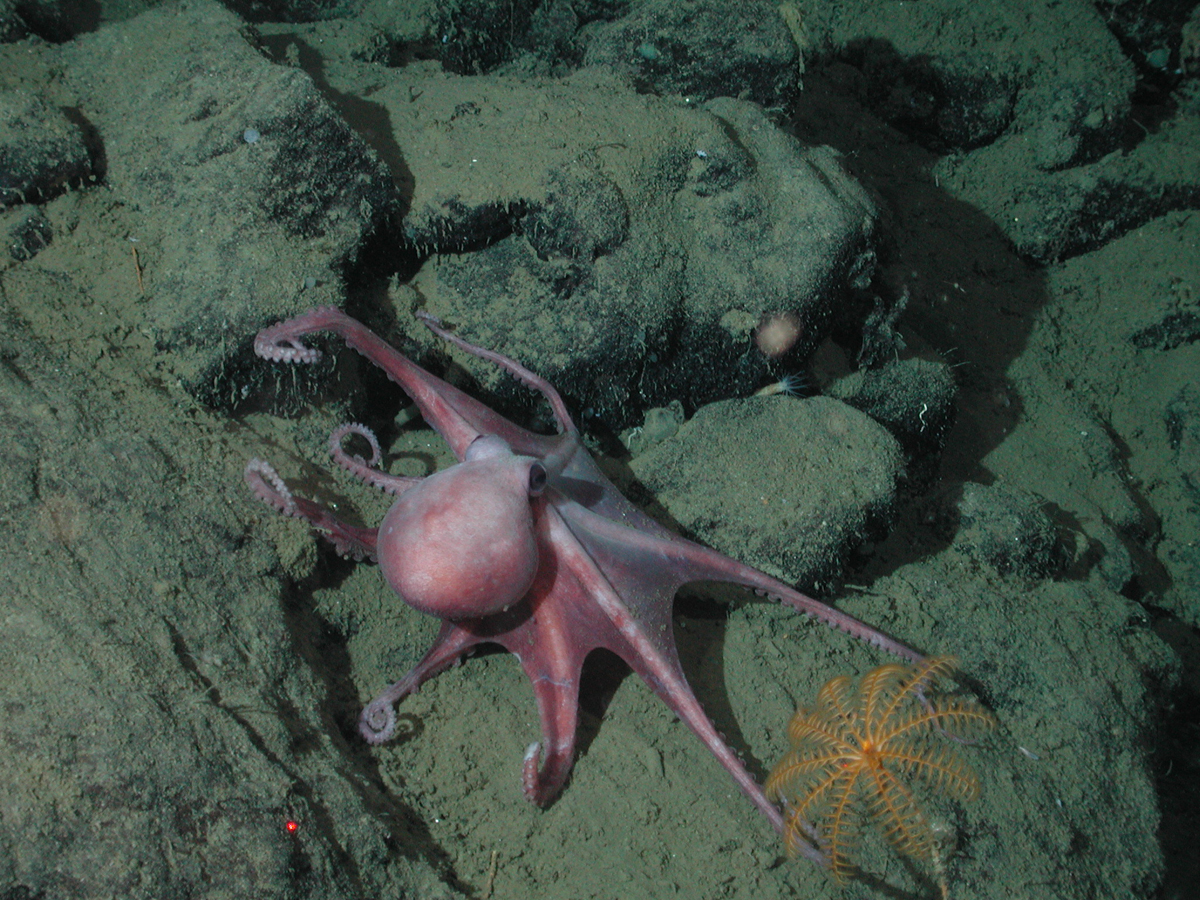 Octopus (Benthoctopus sp.) and orange stalked crinoid on the Davidson Seamount (2422 meters depth)